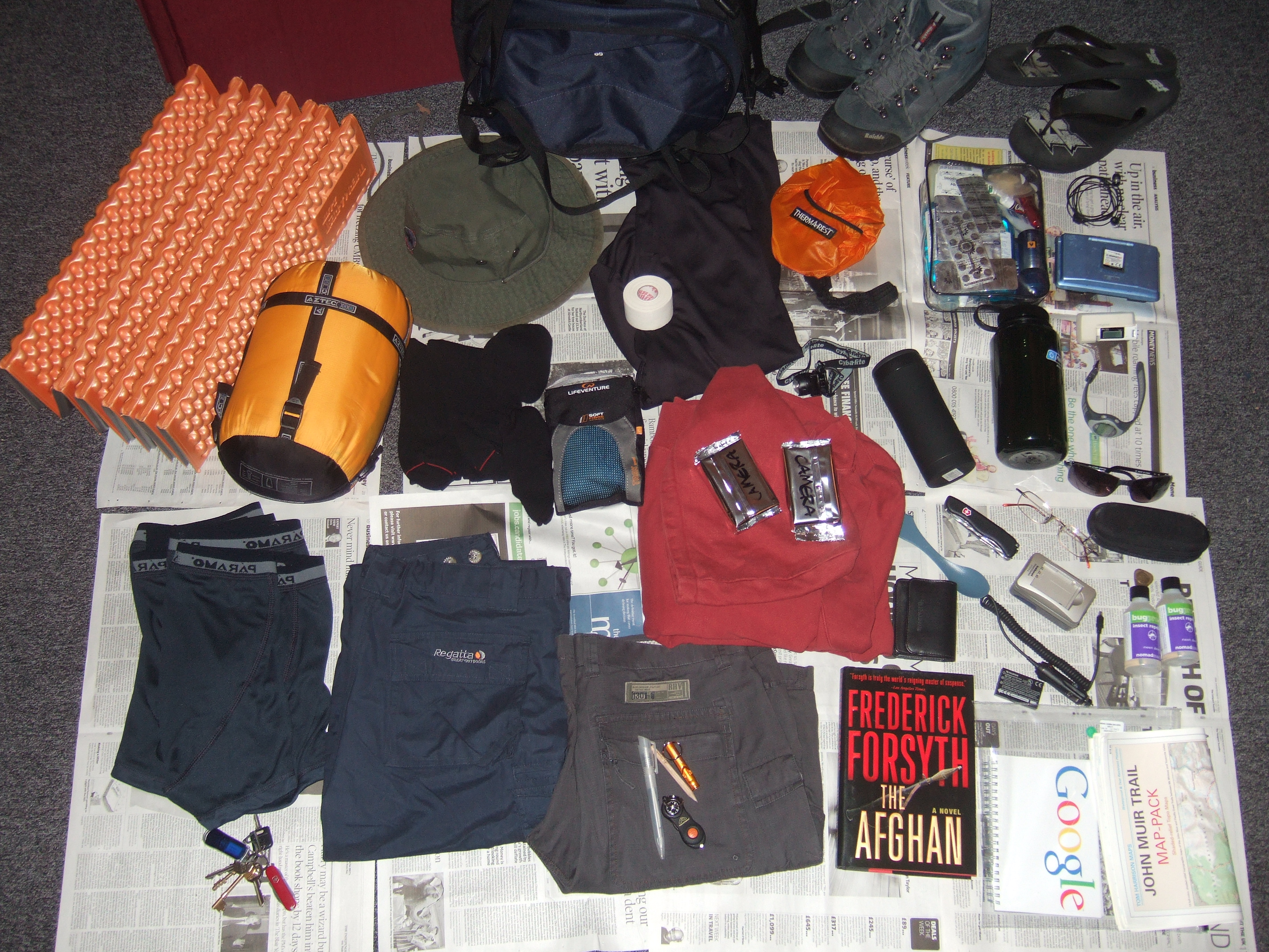 Apart from some clothes, this is what I'm taking for a 200 mile hike in the U.S. [Update] Stuff that didn't make it back: Trousers, ripped open sliding down half crescent on second day, binned on first day back in civilization. Sunglasses, broke first day. Cameras ditched before we even flew out to California because of weight. Sleeping pad, left in California. Glasses, made it back, but grit and sand ruined them (despite being in their case the whole time). Spork, snapped. Watch, fell off and lost. Stuff I couldn't have lived without Hat, mp3 player, deet, camel bak (not shown, bought it after a few days out there). Stuff I didn't need Water bottles (useful, but camel bak far far better), Nintendo DS (battery flat by the time I wanted to use it), flip flops (sprained ankle wading stream in them, should have bought crocs), maps and notebook (though if I'd have got lost, the maps would have been worth it), towel (used it maybe once).